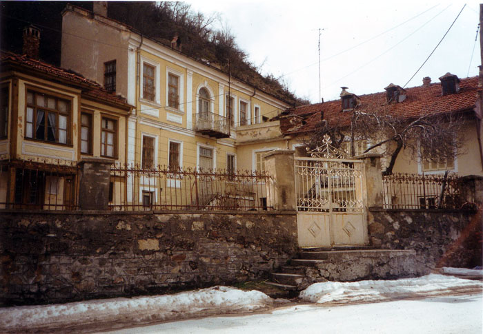 House in Florina, Greece. Sceenery of Angelopoulos film 'O Melissokomos'